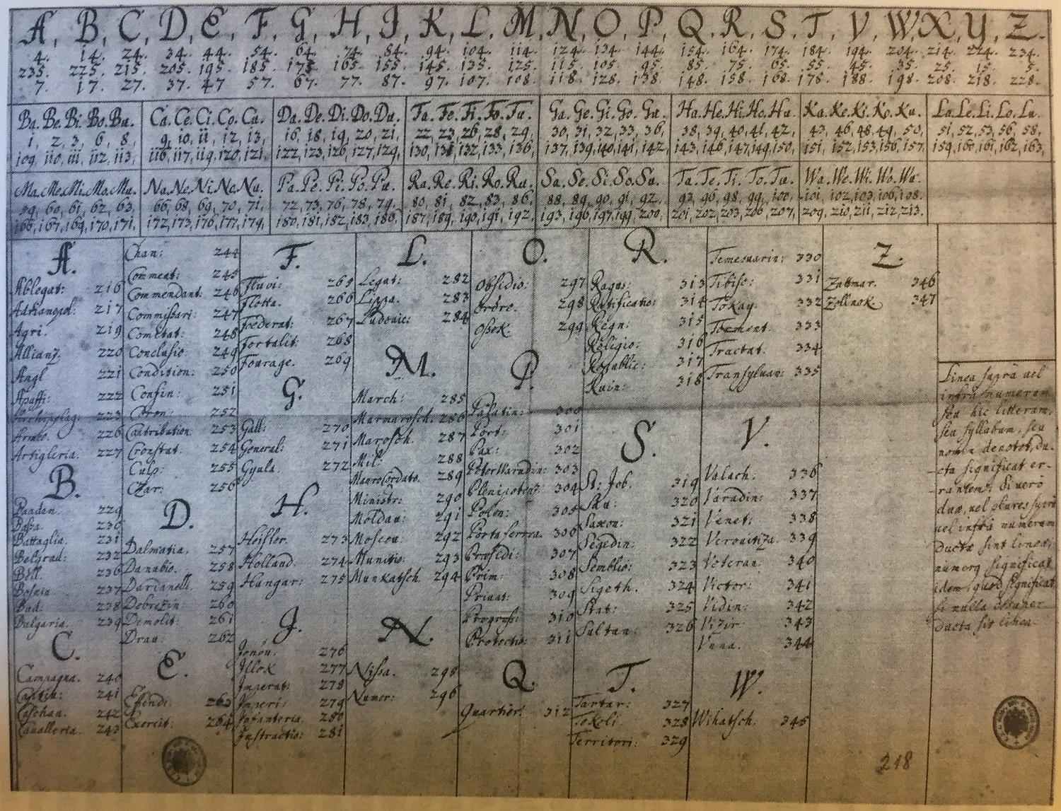 Nomenclator cipher system, French 17th century